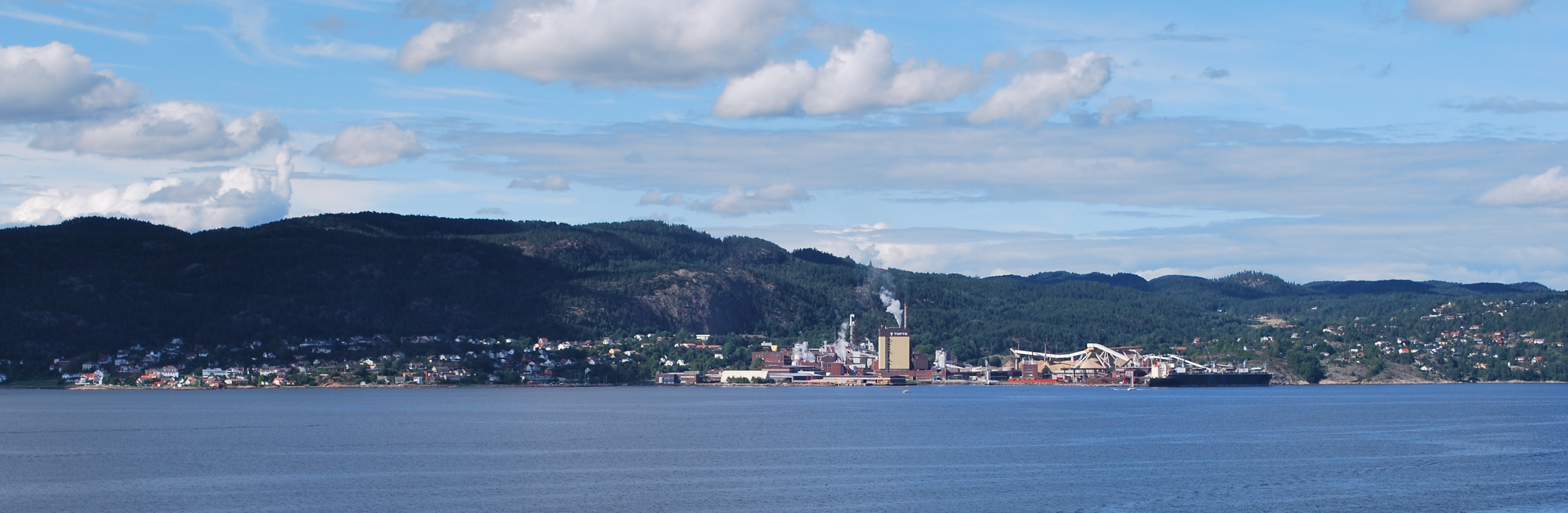 Tofte, Hurum, Norway